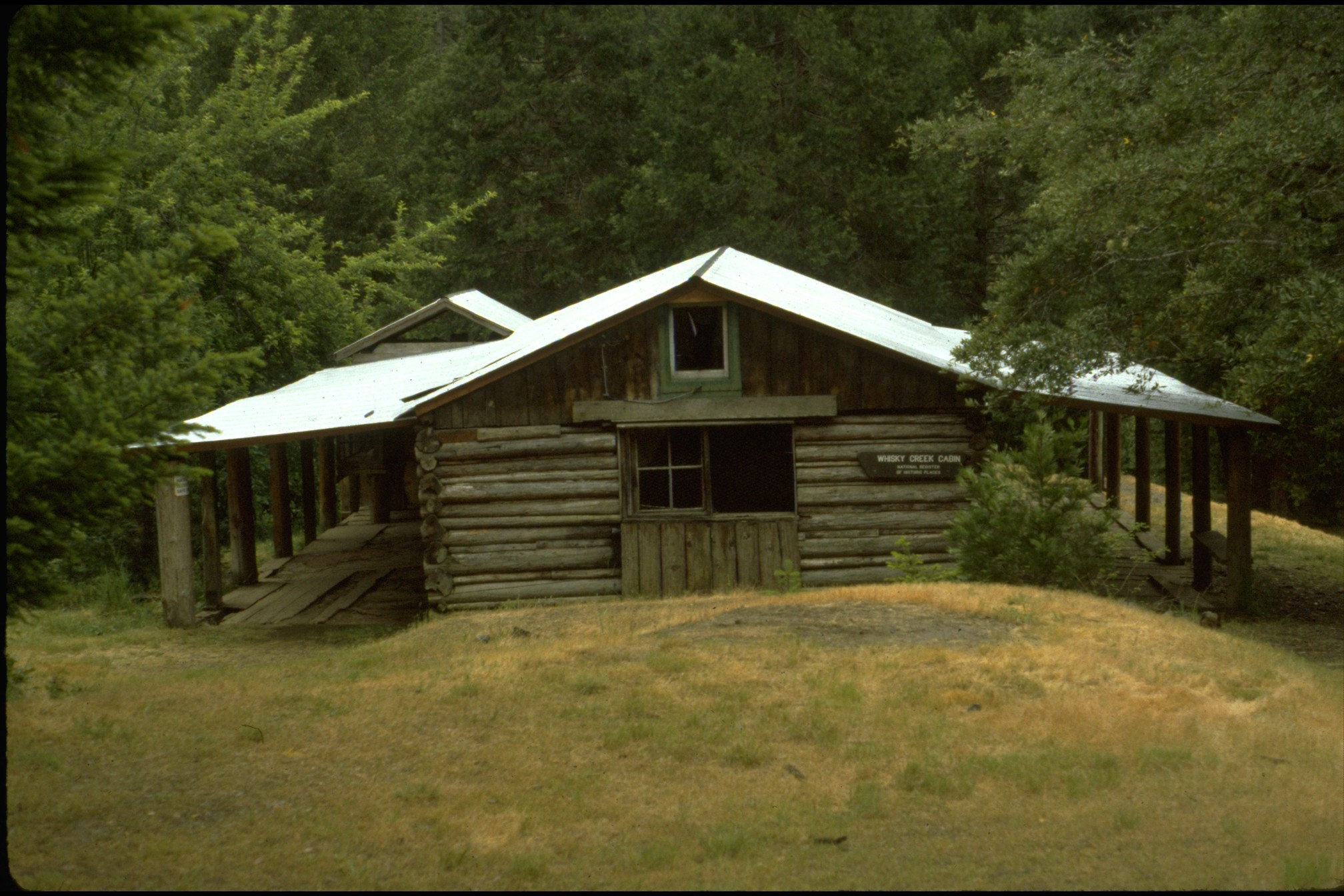 North side view of Whisky Creek Cabin; located on the north shore of the Rogue River near the mouth of Whisky Creek in Josephine County, Oregon